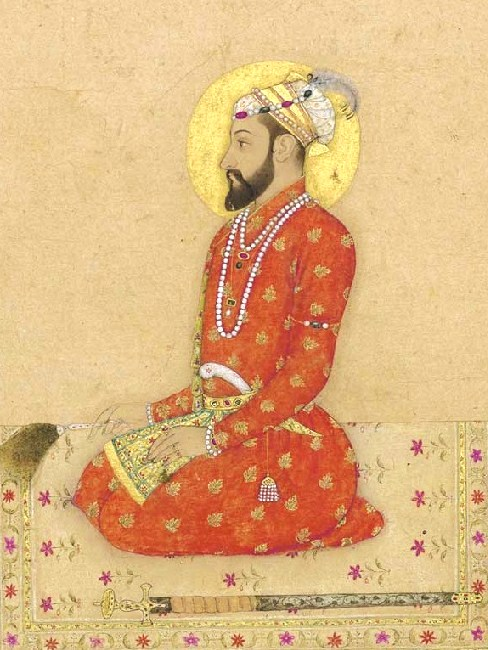 Bahadur Shah I of India.